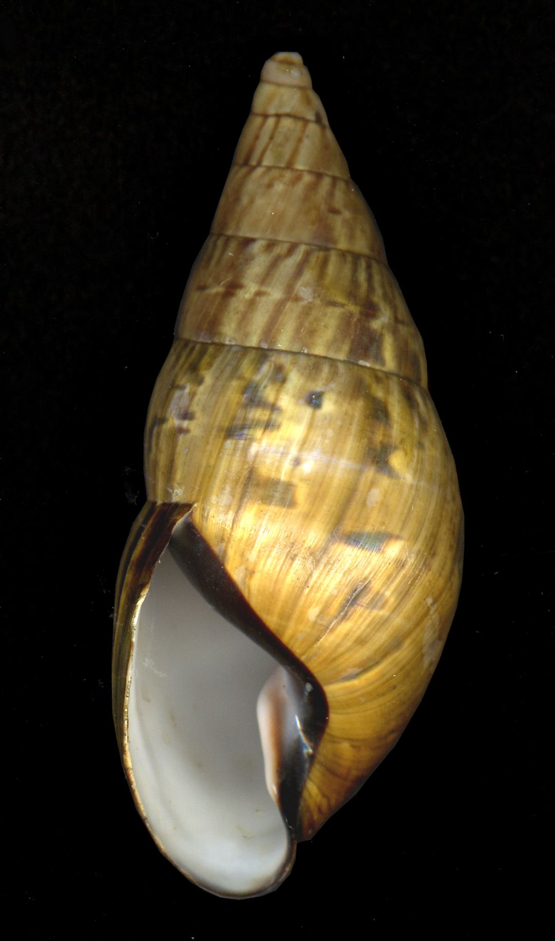 The sinistral (left handed) orthalicid land snail, Corona perversa; obtained from local individual in far eastern Peru along Amazon River, but specimen dead and possibly not from that location.